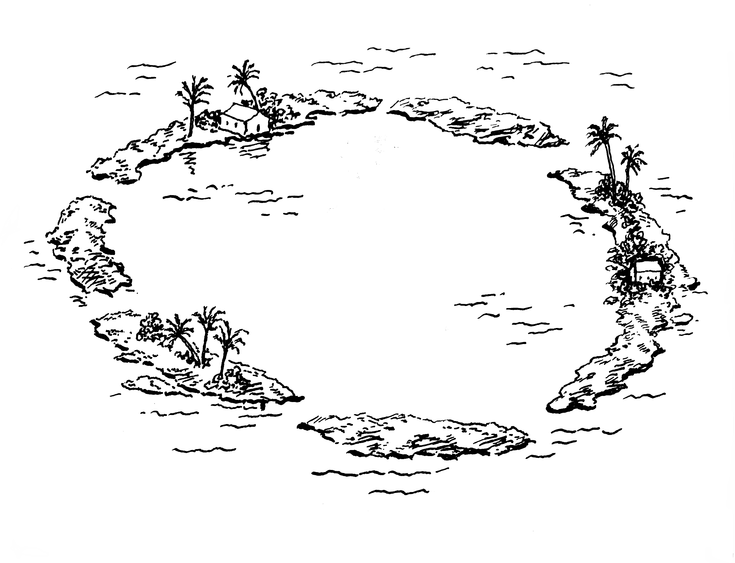 an illustration of an atoll